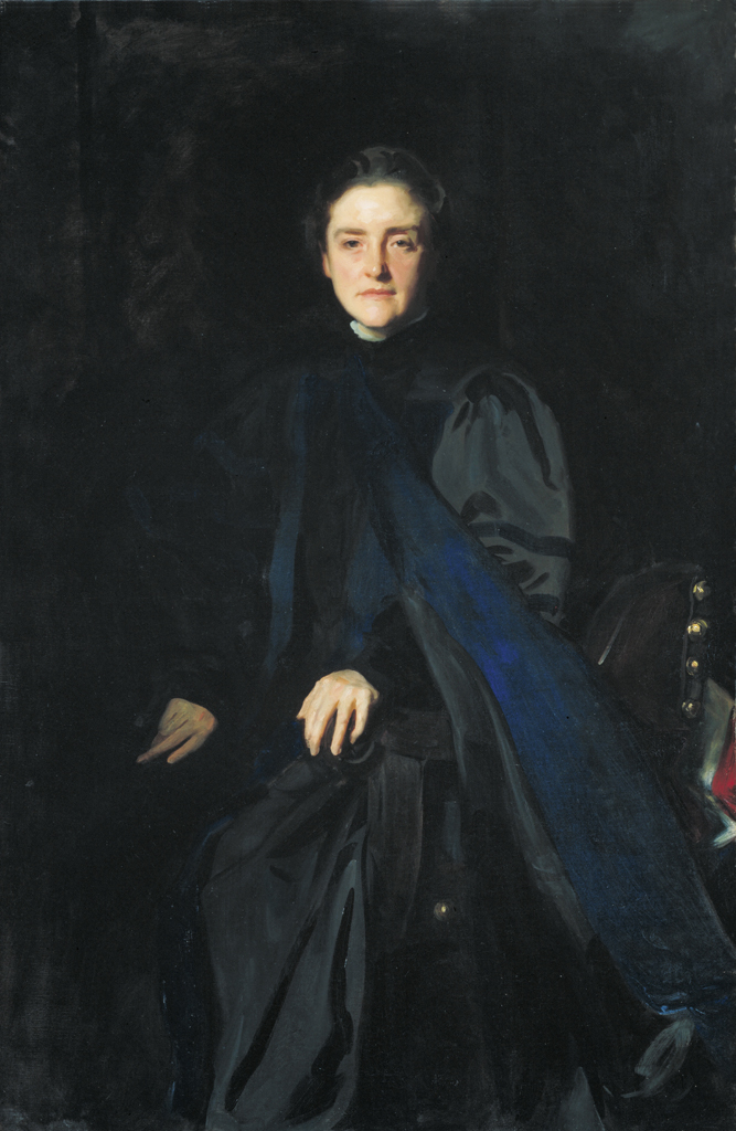 Portrait of Miss M.Carey Thomas, first Provost and second President of Bryn Mawr College